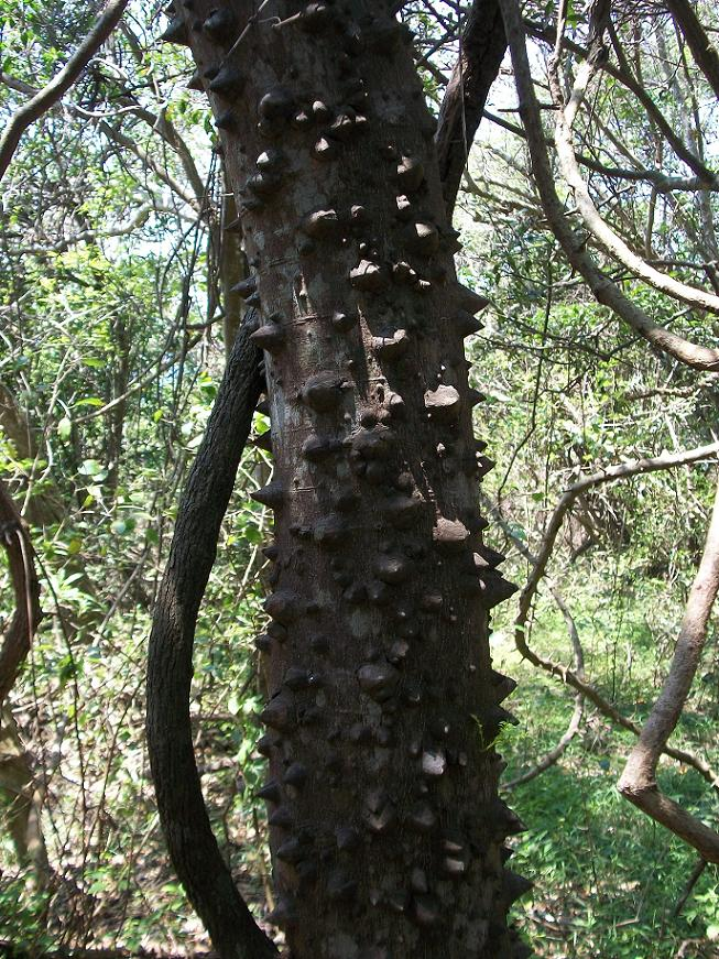 Stem of Small knobwood at Hawaan Forest on the coast of KwaZulu-Natal, South Africa